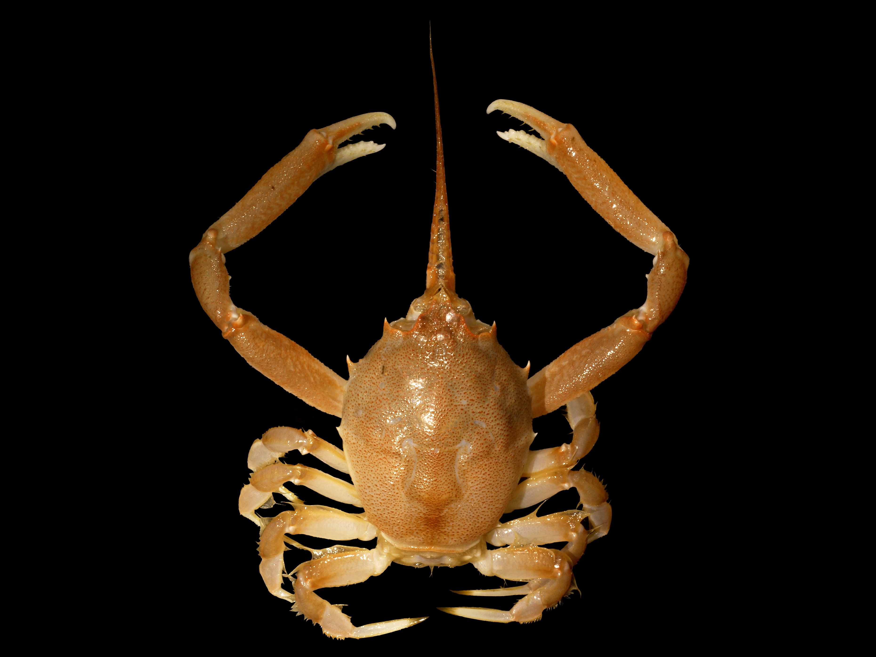 Male Masked crab from the Belgian Coastal waters. Carapace width: ~25 mm The picture was taken in the lab.